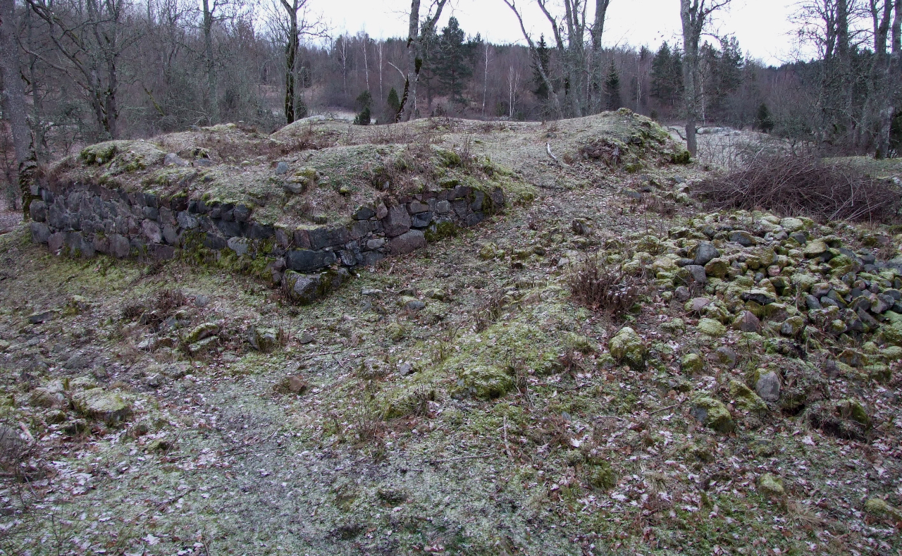 The rest of the old fort of Fågelvik